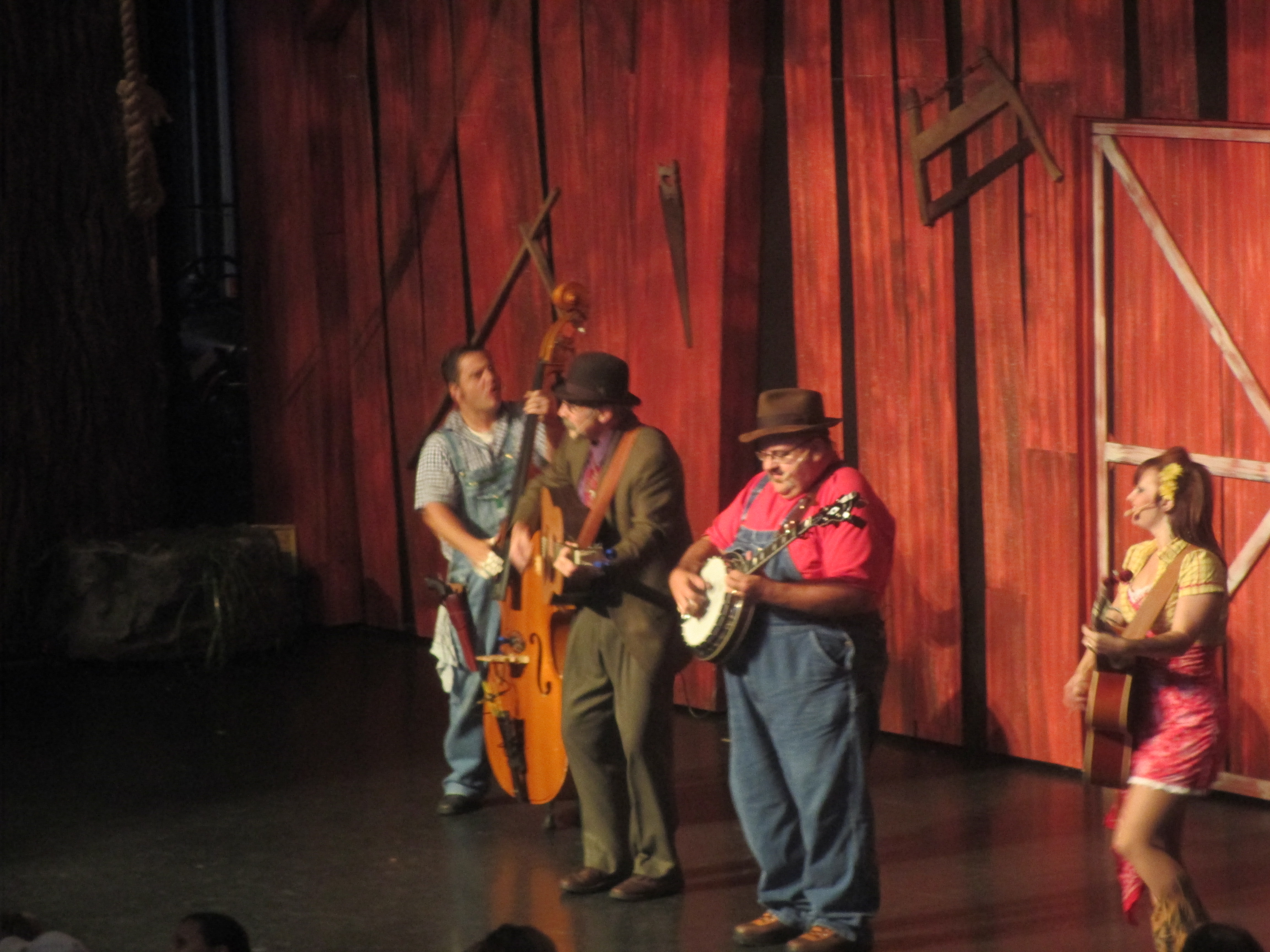 I took photo with Canon camera at the Hatfields and the McCoys Dinner Show in Pigeon Forge, TN.